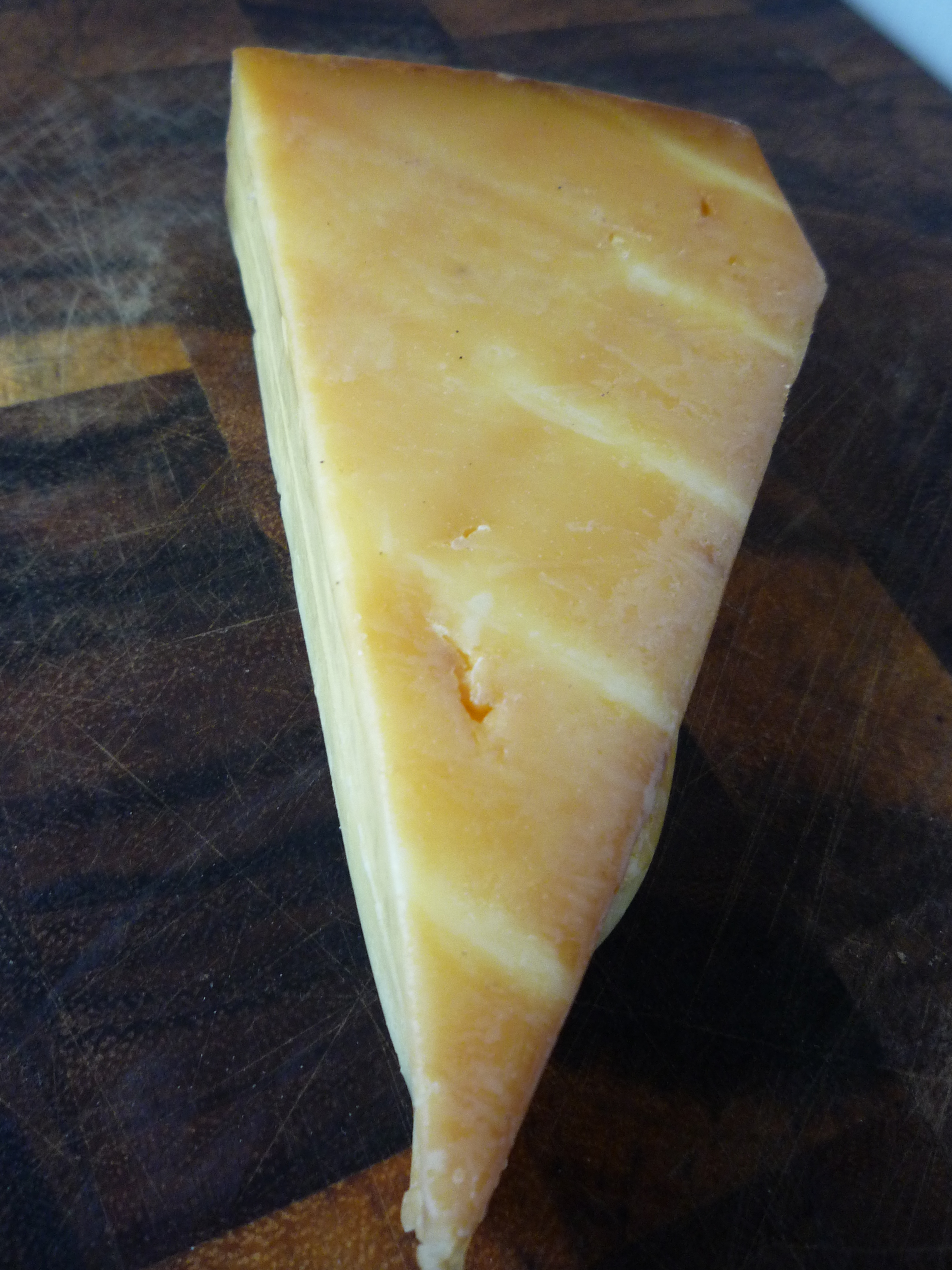 for fish pie this recipe and more on my blog Girl Interrupted Eating